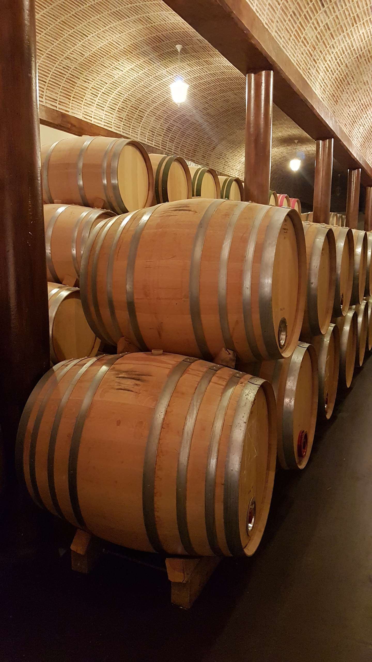 500 litres oak barrels in Bodegas Casajus in Ribera del Duero, Spain